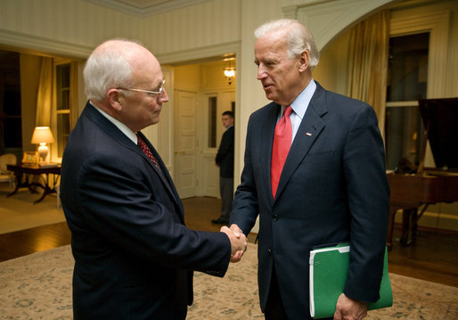 Vice President Dick Cheney bids farewell to Vice President-elect Joe Biden Thursday, November 13, 2008, following their nearly hour-long visit at the Vice President's Residence at the U.S. Naval Observatory in Washington, D.C.